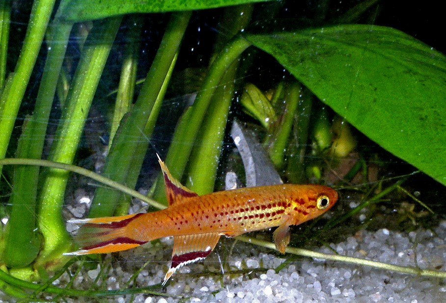 Aphyosemion australe f. gold (male)